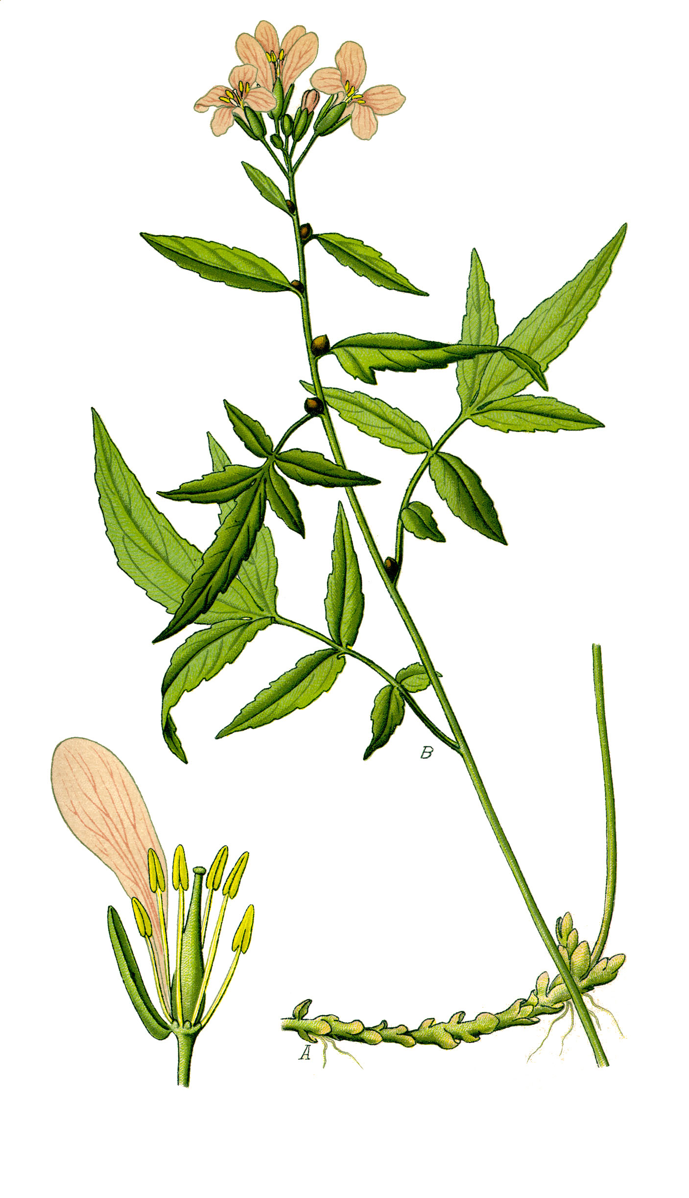 Name Cardamine bulbifera (= Dentaria bulbifera) Family Brassicaceae